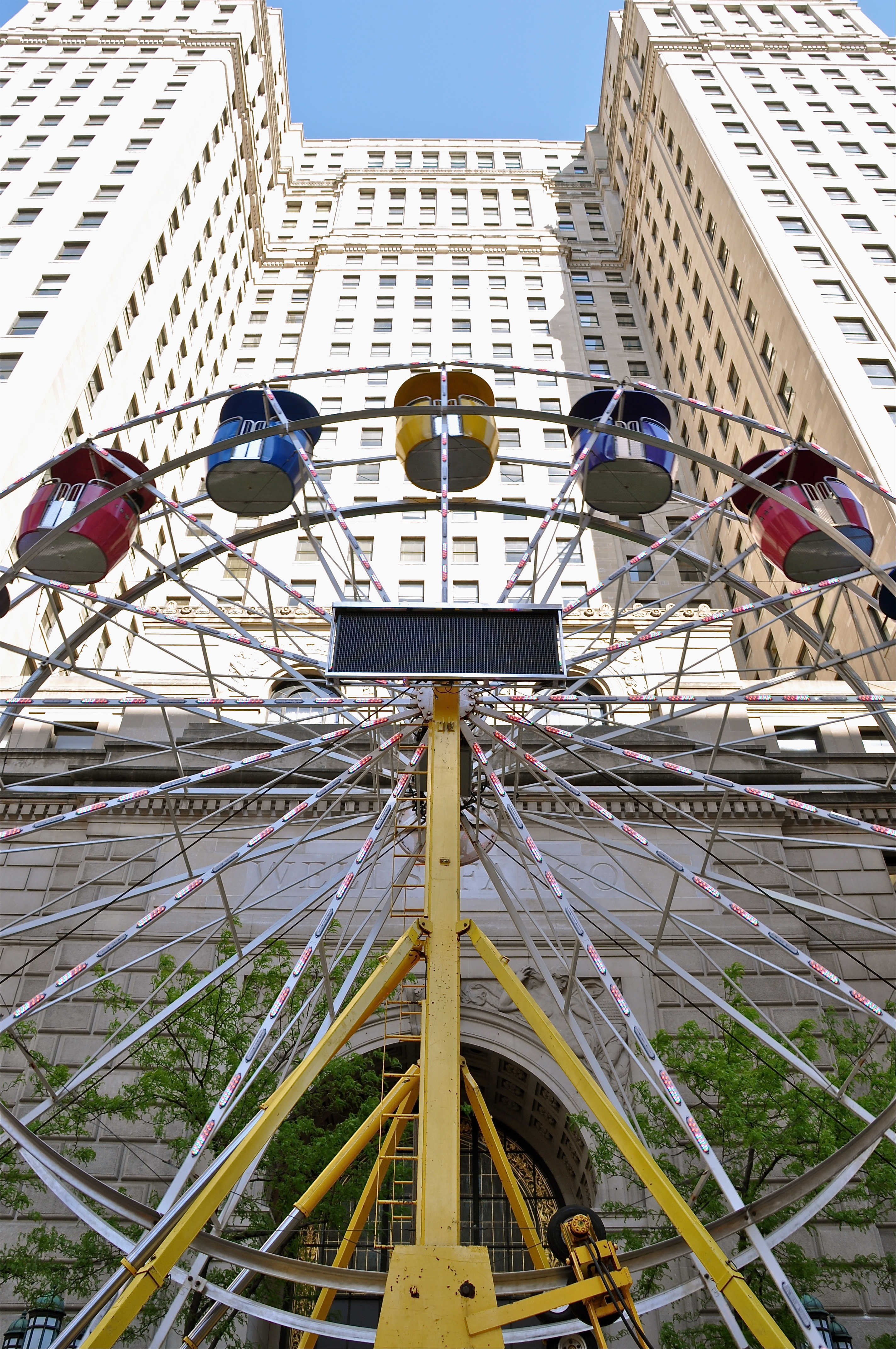 The Wells Fargo Building during the Philadelphia International Festival of the Arts in 2011. The 70 feet, 53,000-pound ferris wheel, from Oscar's Amusements, was one of the street fair's main attractions.